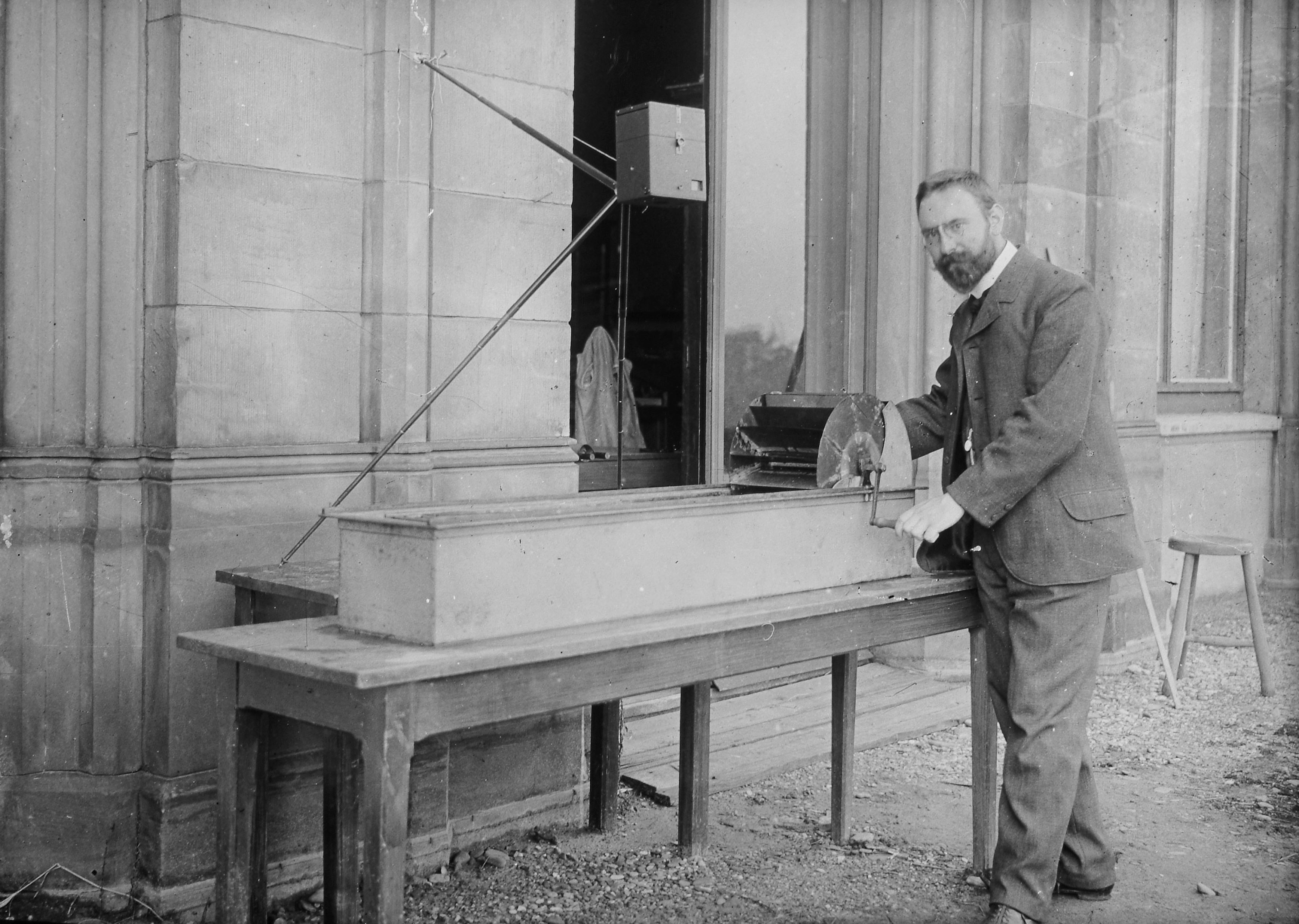 Ludwig Prandtl (1875-1953) in front of his research water channel in Hannover in 1904. The water was propelled with a hand-operated paddlewheel along the 1.5-meter long duct. A series of blades and meshes streamlined the flow adequately.